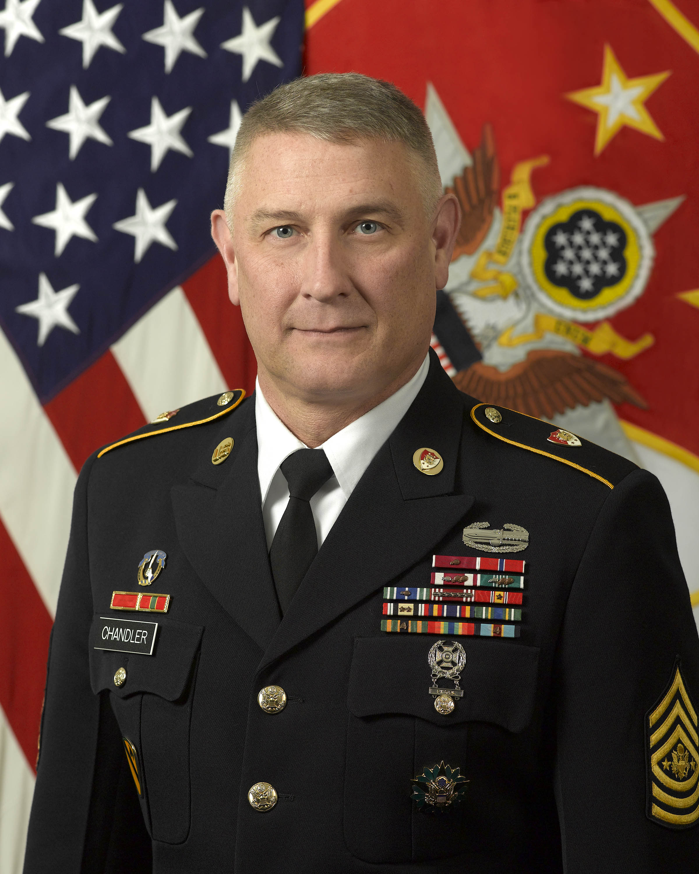 Official photo of SMA Chandler in 2012.